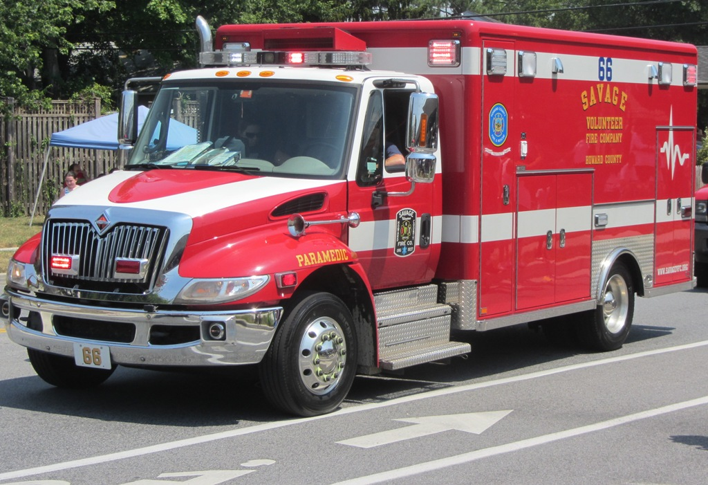 Savage Maryland Vol Fire Department Medic 66